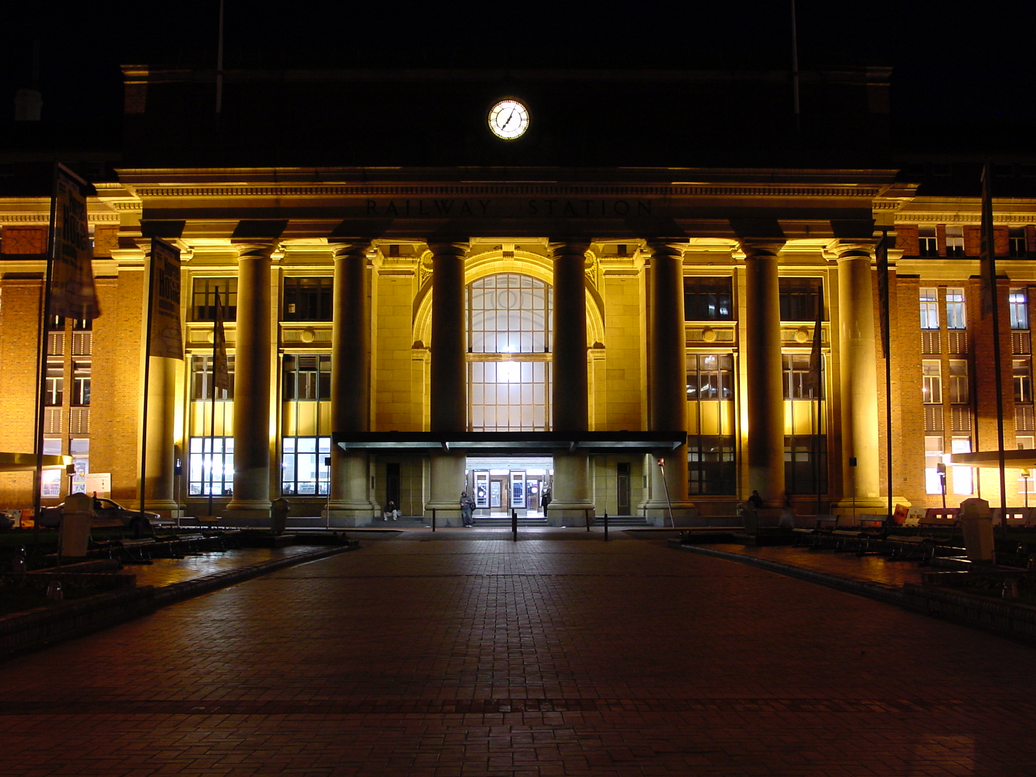 Wellington Railway Station by night. Wellington, New Zealand -14 May 2003